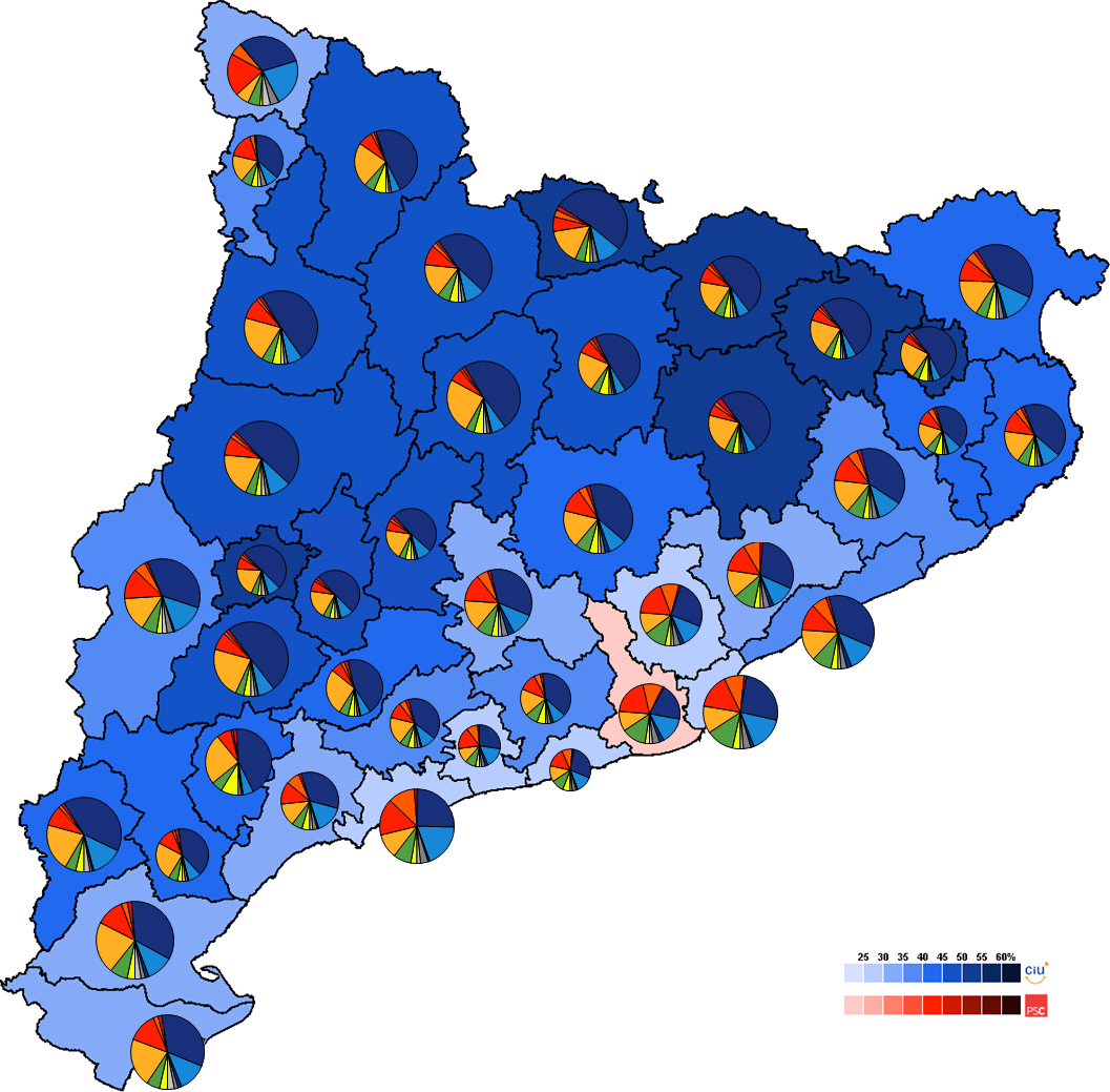 Regional results for the Catalonian parliamentary election, 2012.